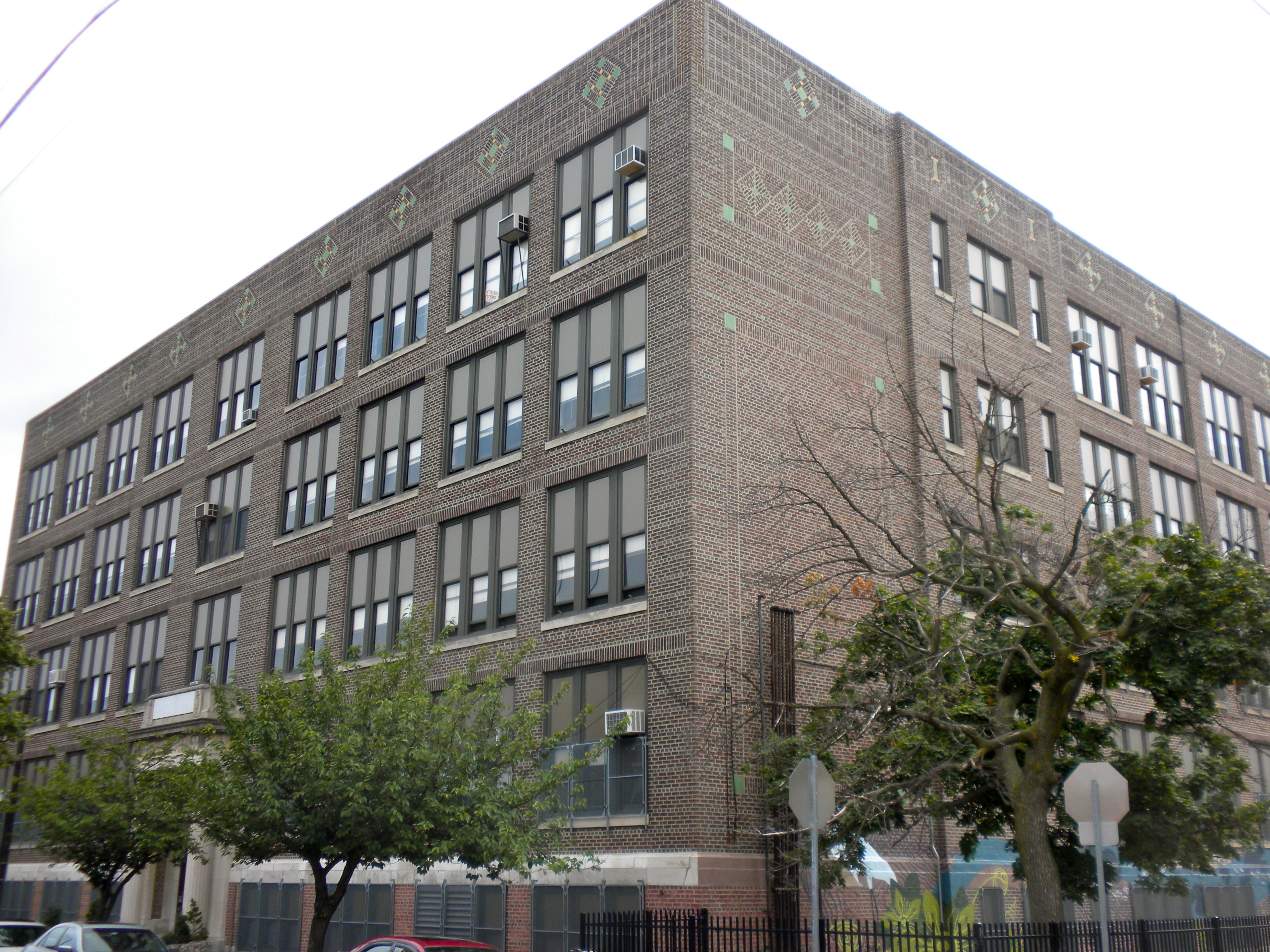 Thomas Jefferson School in Philadelphia on the NRHP since November 18, 1988. At 1101–1125 North 4th St. in the Northern Liberties neighborhood of North Philly. Now known as the Bodine High School for International Affairs.